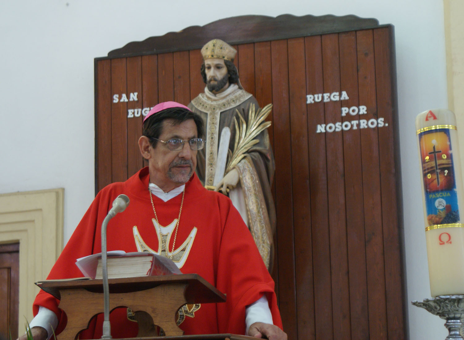 Bishop Mario Eusebio Mestril Vega